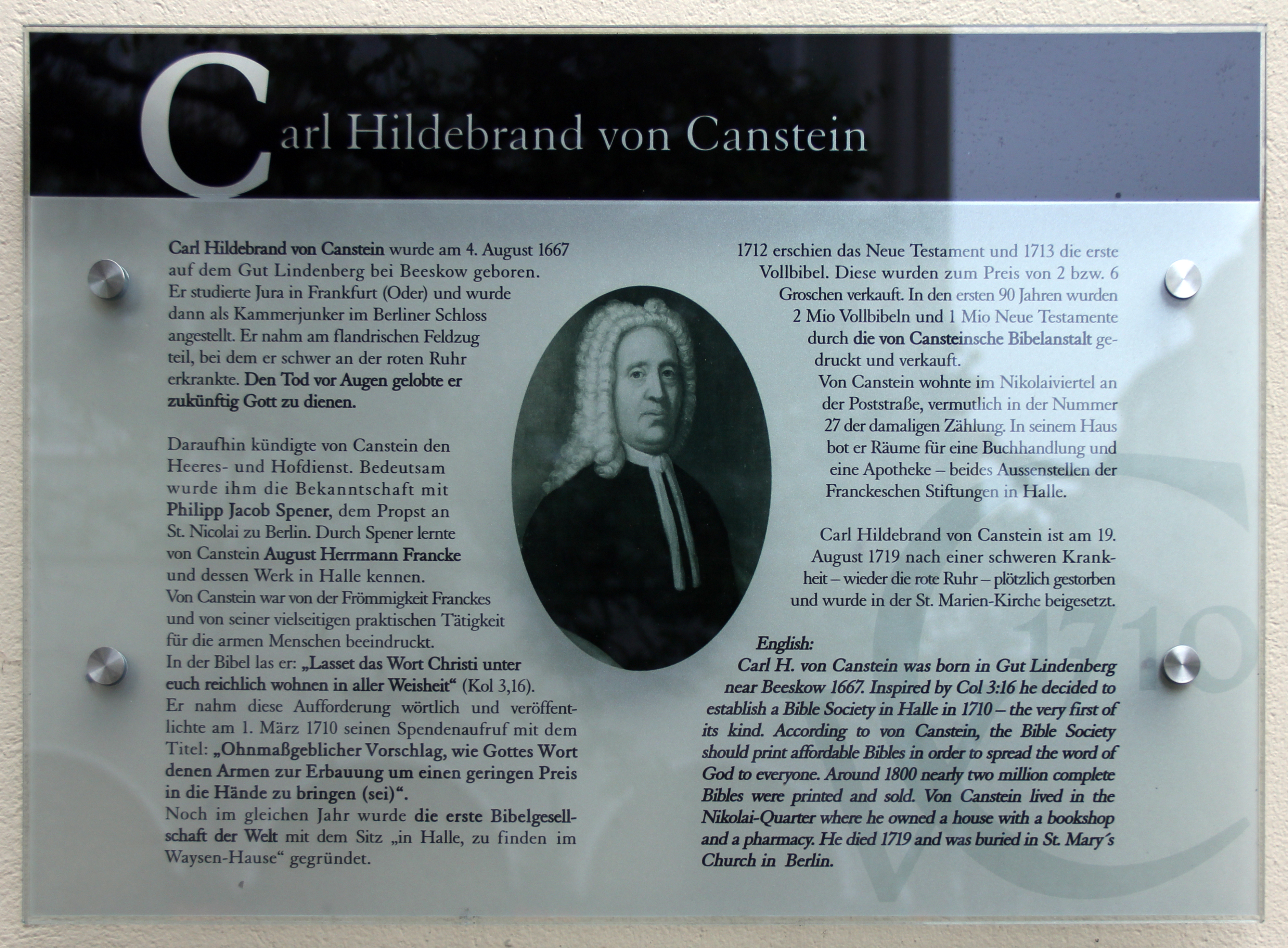 Memorial plaque, Carl Hildebrand von Canstein, Poststraße 25, Berlin-Mitte, Germany